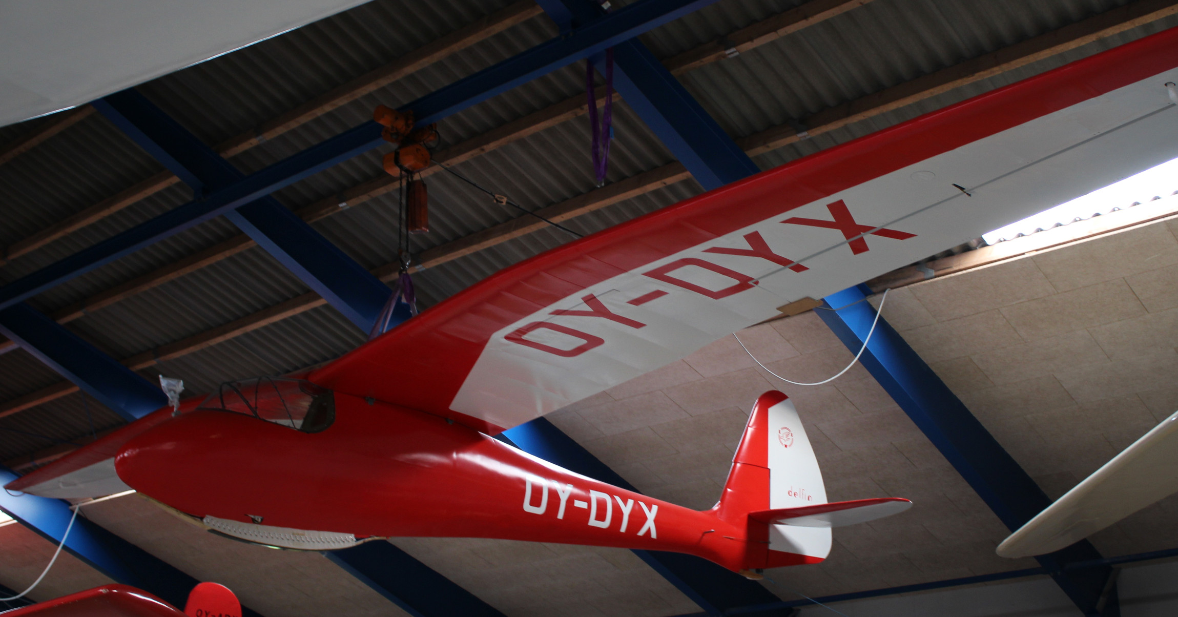 The possibly last WWS-3, restored to airworthy condition, and exhibited at "Dansk Svæveflyvehistorisk Klub" ("Danish Historical Gliding Club") at National Gliding Center Arnborg, Denmark.